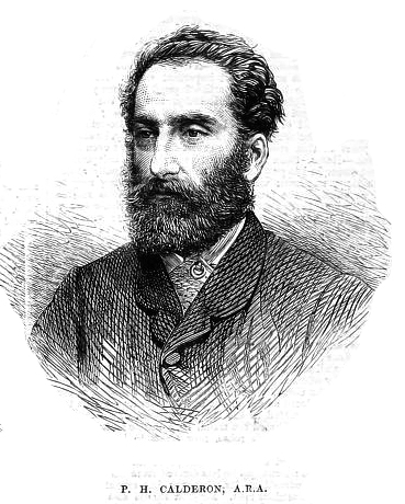 Philip Hermogenes Calderon RA (3 May 1833 – 30 April 1898)